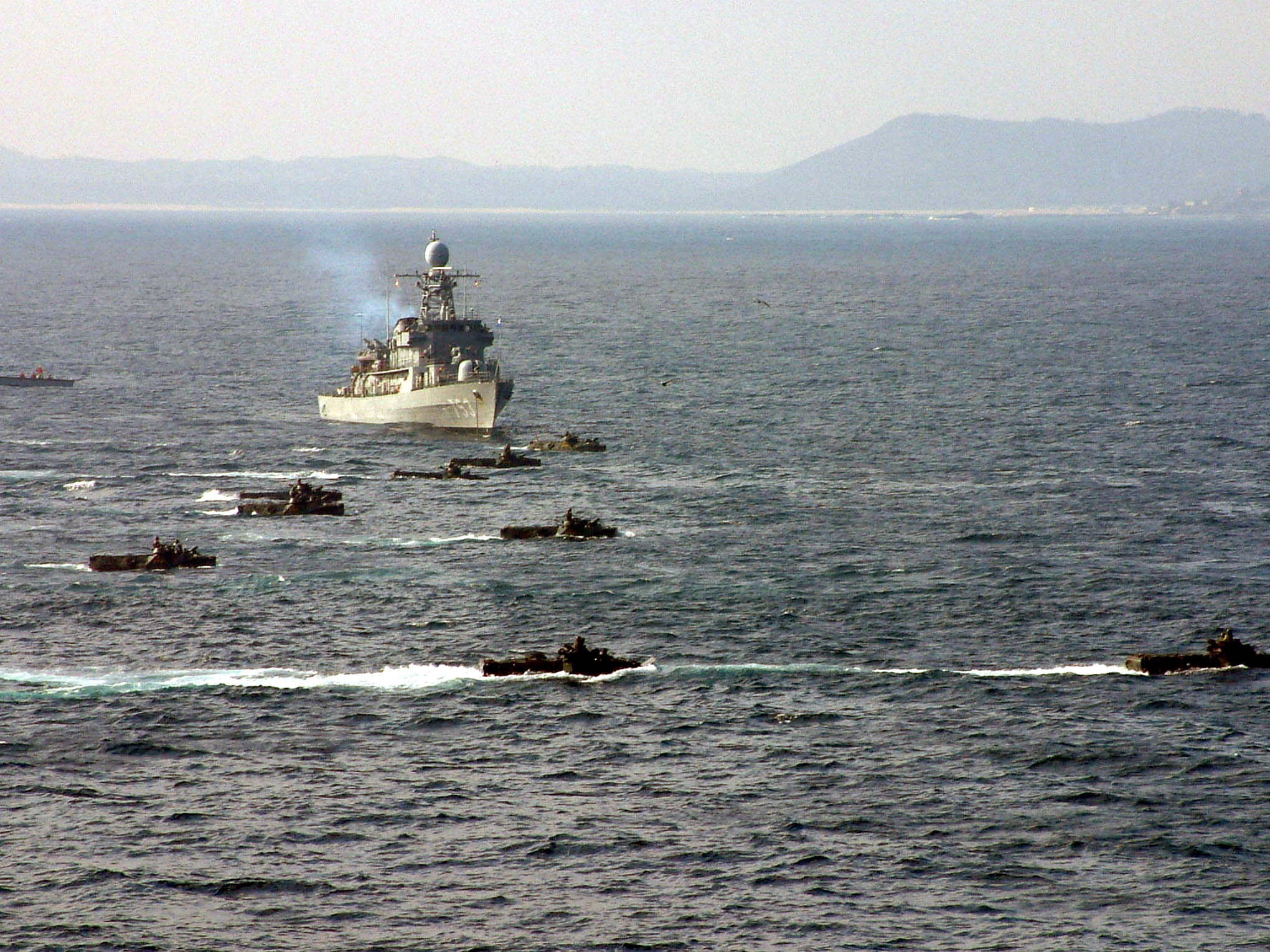 At sea aboard USS Fort McHenry (LSD 43) Mar. 26, 2004 - Amphibious Assault Vehicles (AAV) assigned to Battalion Landing Team (BLT) 2/3 and the Republic of Korea group together in front of Republic of Korea Tank Landing Ship Seongin Bong (LST 685) in preparation of a beach landing during Exercise Reception, Staging, Onward movement and Integration (RSOI) and Foal Eagle. RSOI and Foal Eagle are a combined exercise involving forces from the United States and the Republic of Korea to enhance training opportunities and teach, coach and mentor service members, while exercising senior leaders decision-making capabilities. The Essex Expeditionary Strike Group (ESG) with embarked 31st Marine Expeditionary Unit (MEU) was participating in the exercise as part of the Navy's only permanently forward deployed amphibious force. U.S. Navy photo by Journalist 3rd Class Stephen Haynes. (RELEASED)